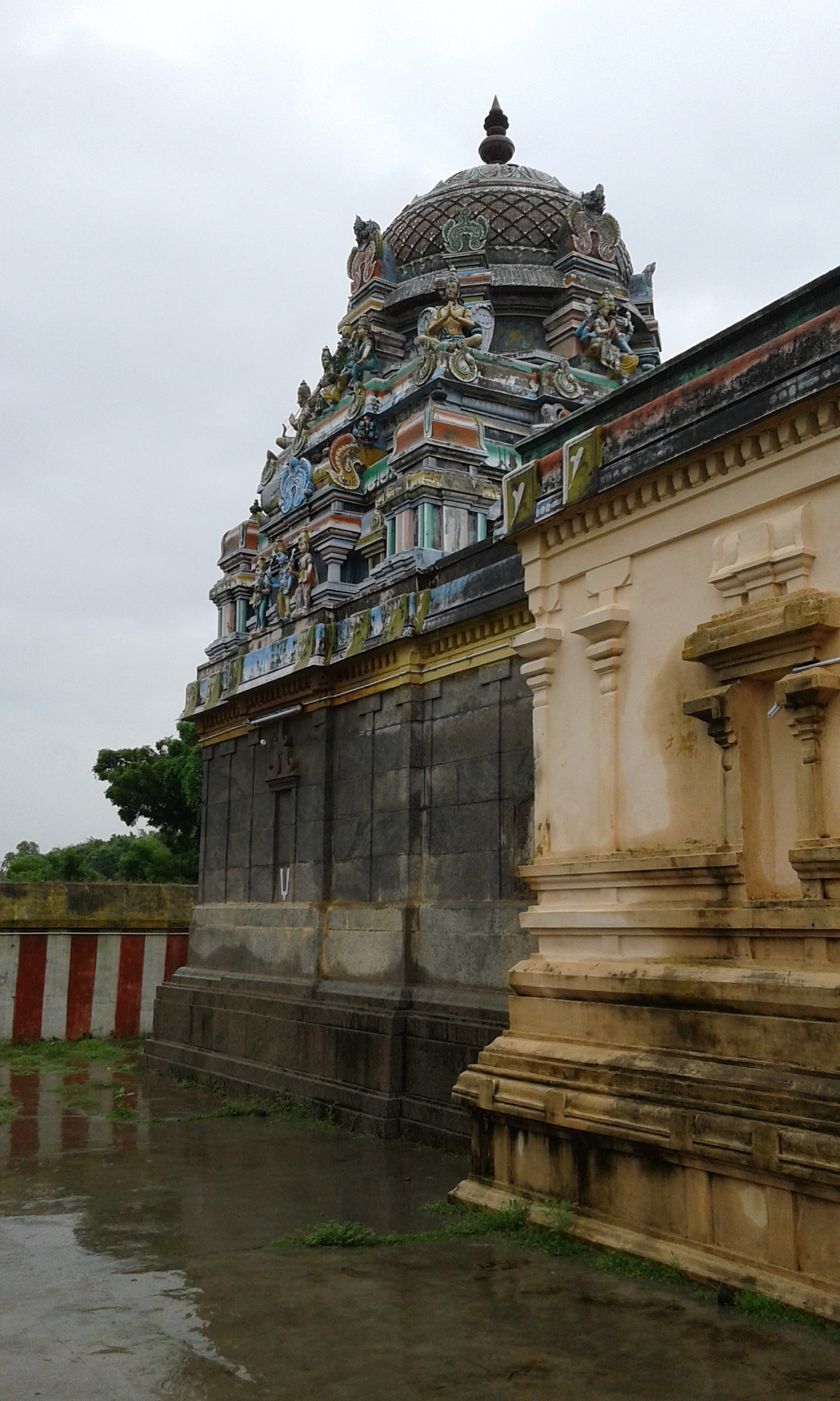 Thiruvali